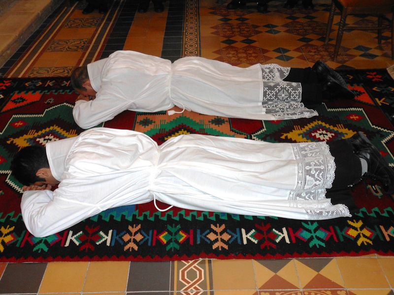 at deacon's ordening in Gorica, Livno